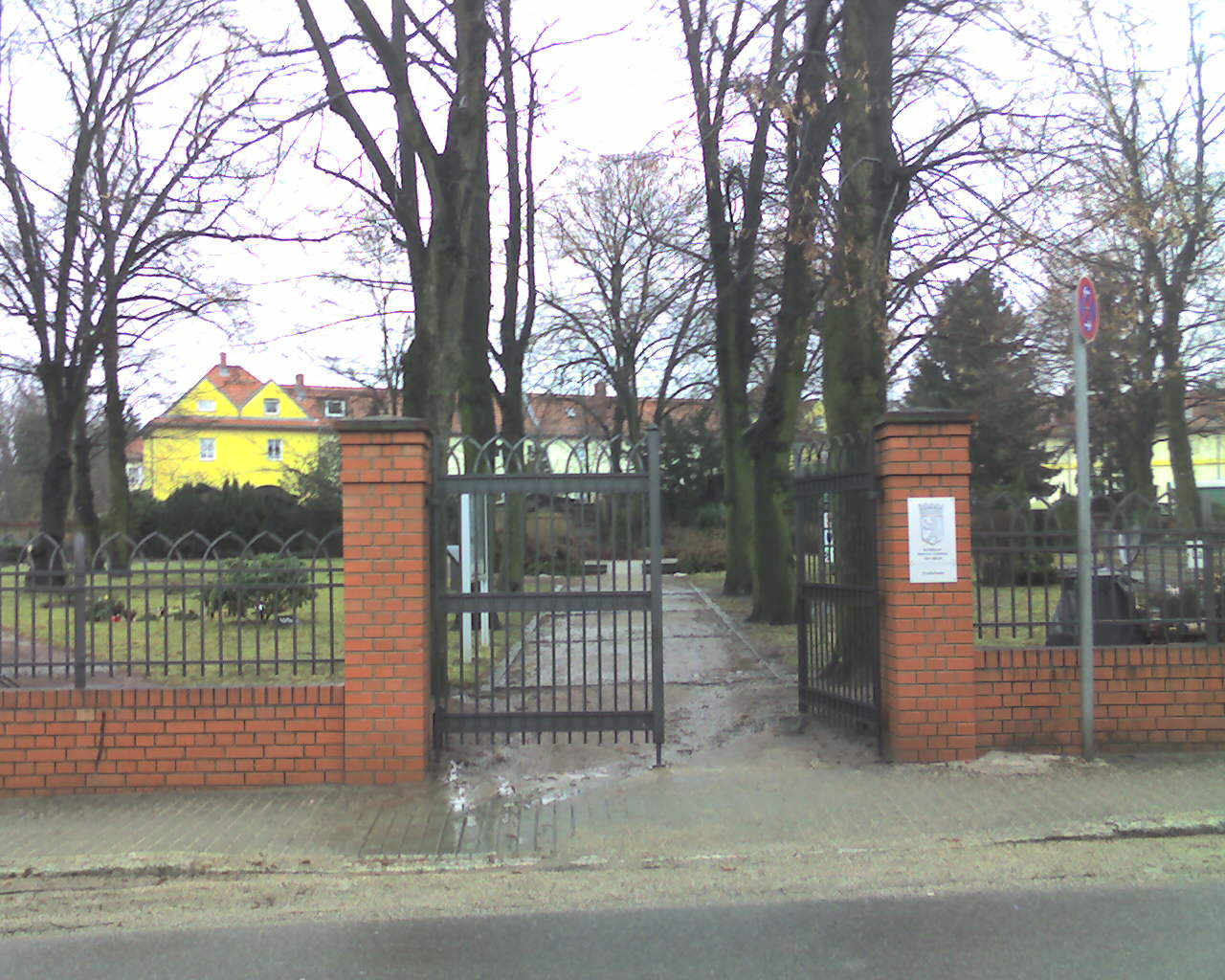 The entrance gate to the cemetery of Bohnsdorf, Treptow-Köpenick, Berlin.